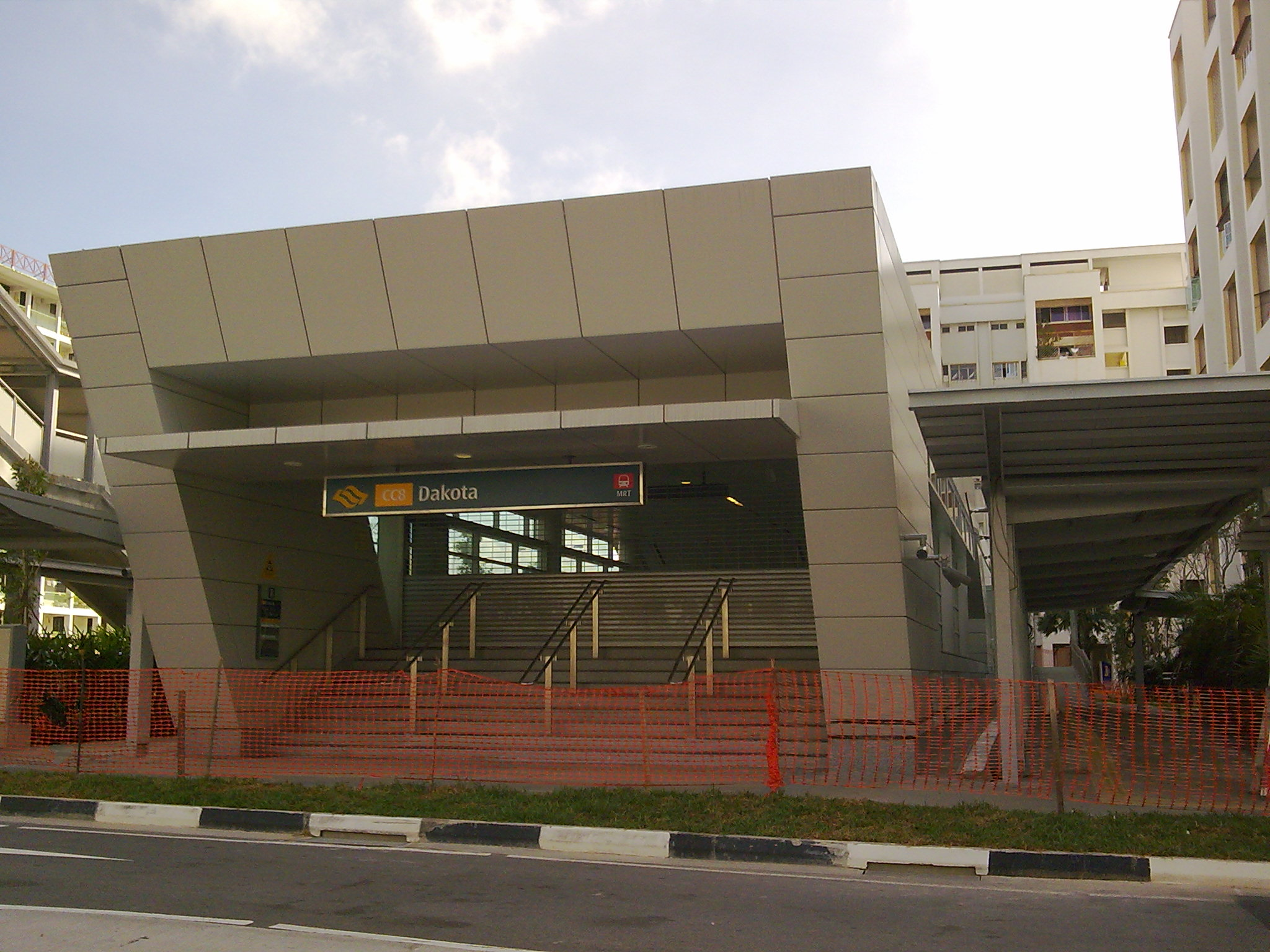 Station exit B of Dakota Station of the Circle Line.